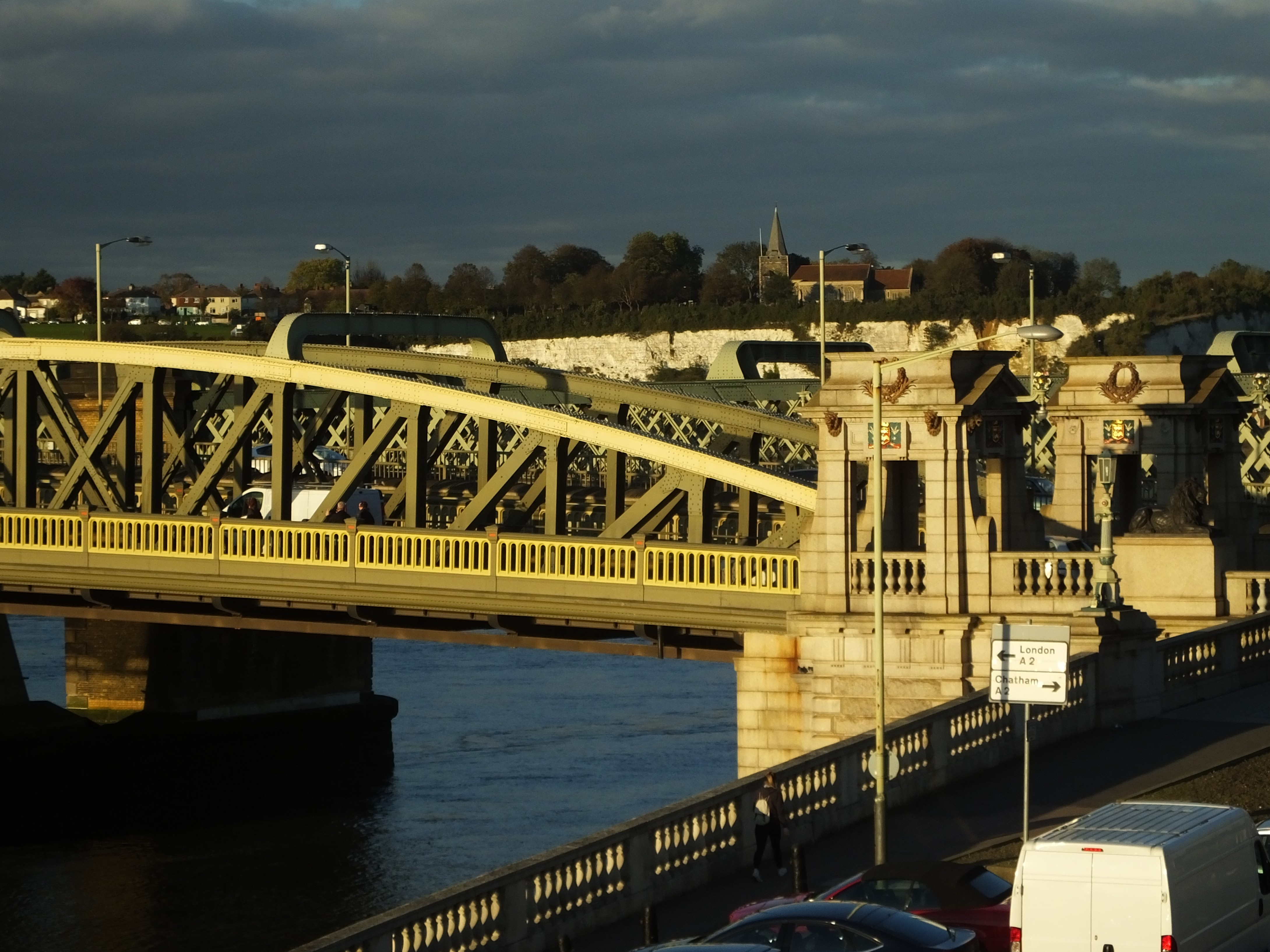 Collection of the Rochester Bridge in Rochester, Kent, with Strood and Frindsbury behind. Taken from Rochester Castle.